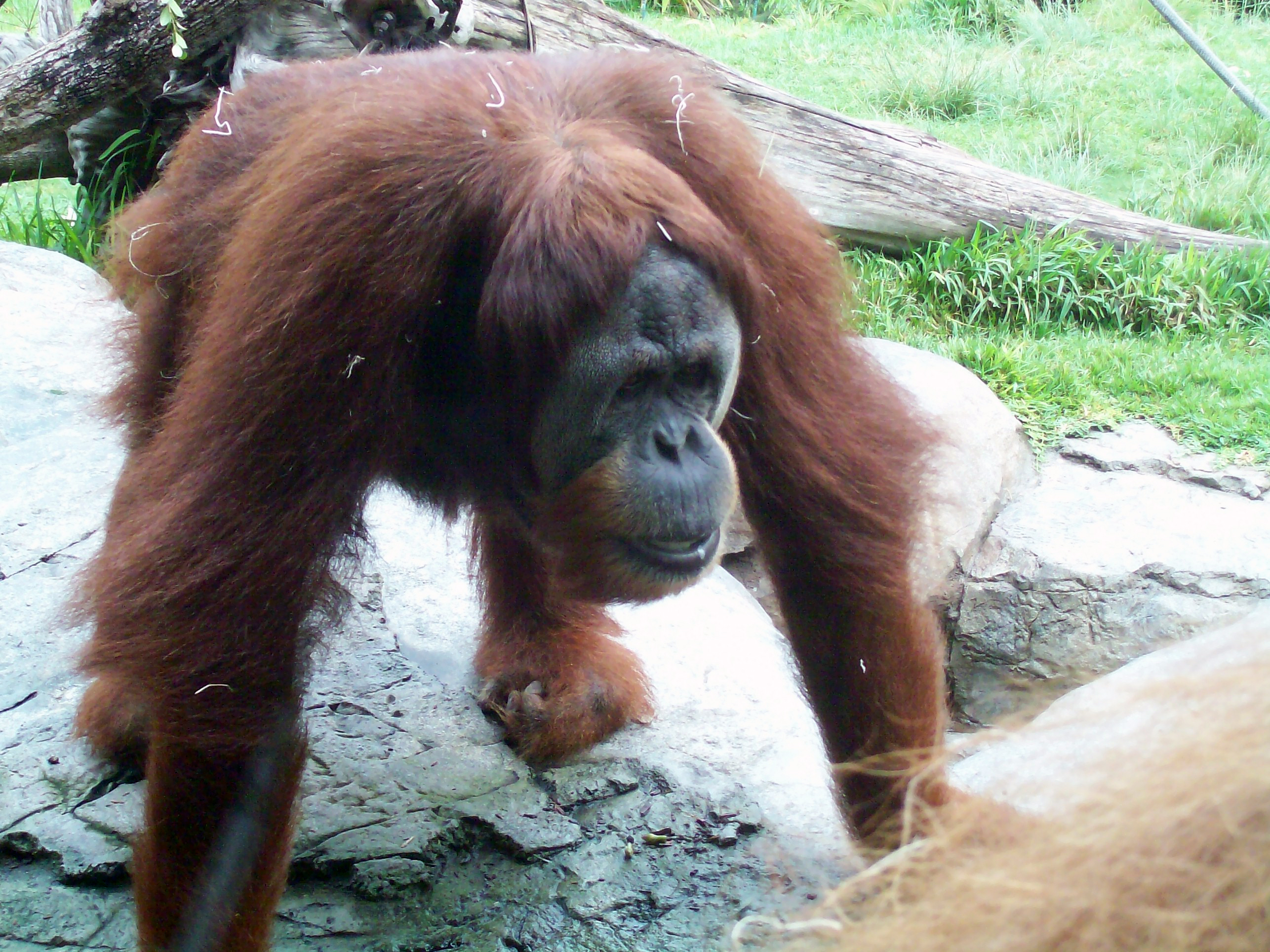 San Diego Zoo